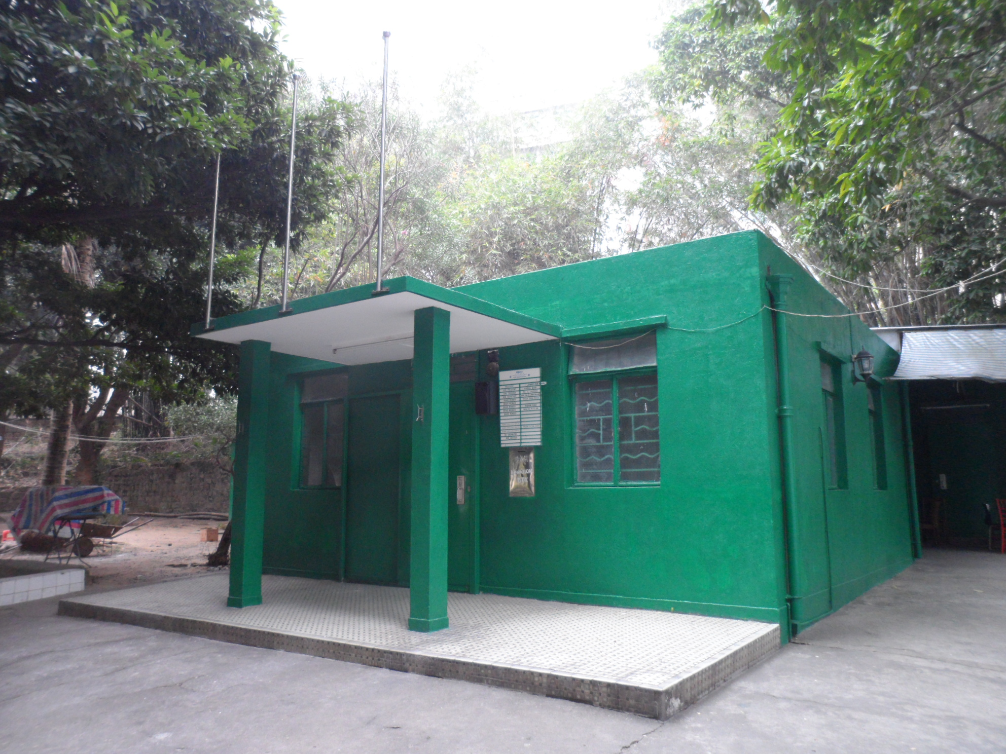 Islamic Association of Macau, Ramal Dos Moros, Our Lady of Fatima Parish, Macau, China